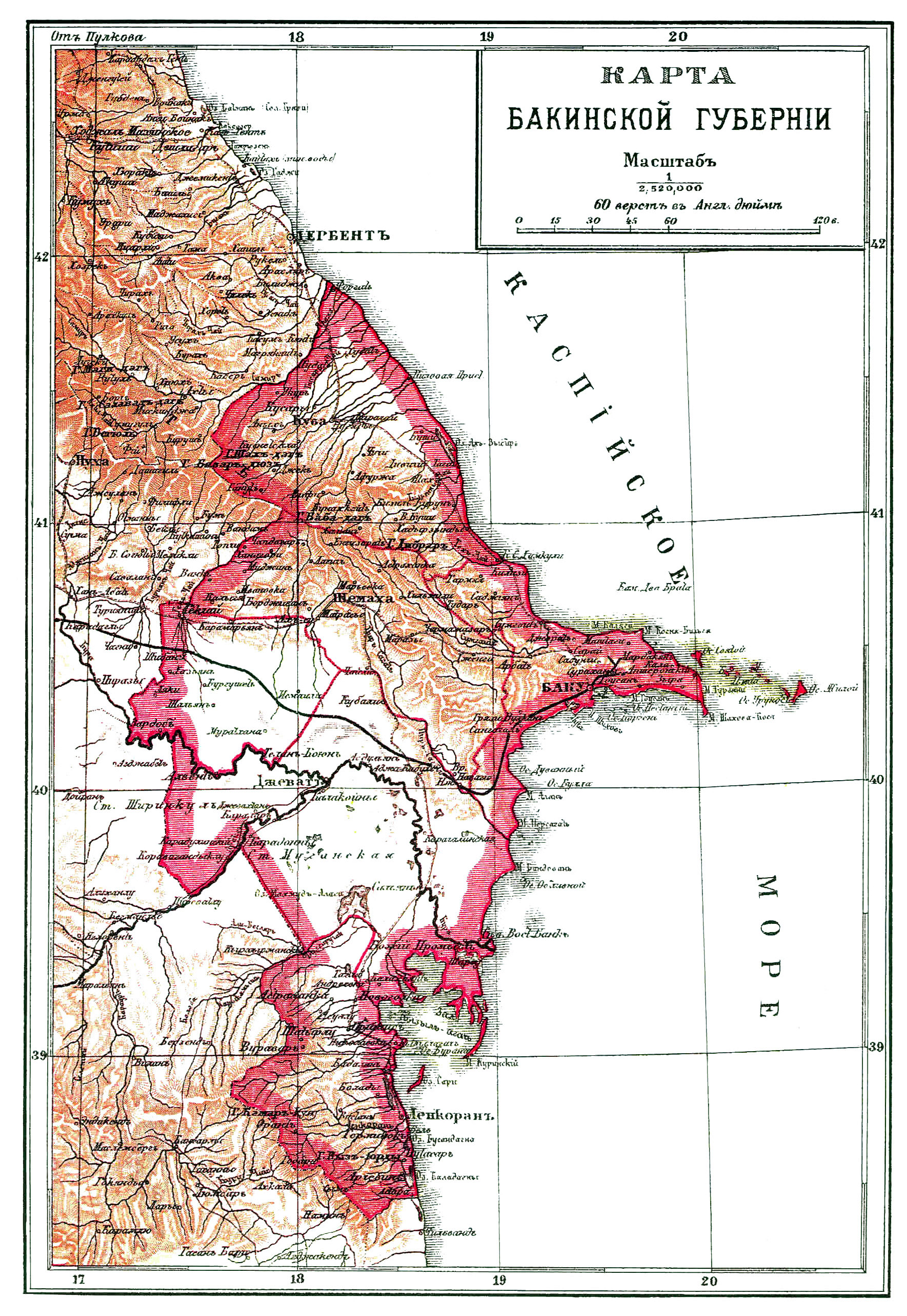 Illustration from Brockhaus and Efron Encyclopedic Dictionary (1890—1907)